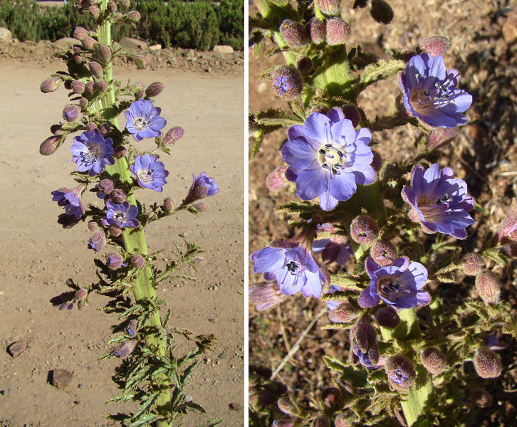 On the beach near Los Vilos, Chile. In context at